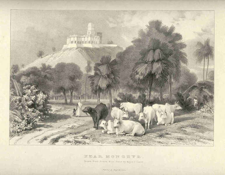 Filling water-skins; traveling; herding cattle; three lithographs by John Luard, c.1840's Source: ebay, June 2004